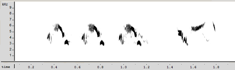 Vocalistaions of male Spanish Sparrows recorded 7 June 1983 at Brédéah, western Algeria.